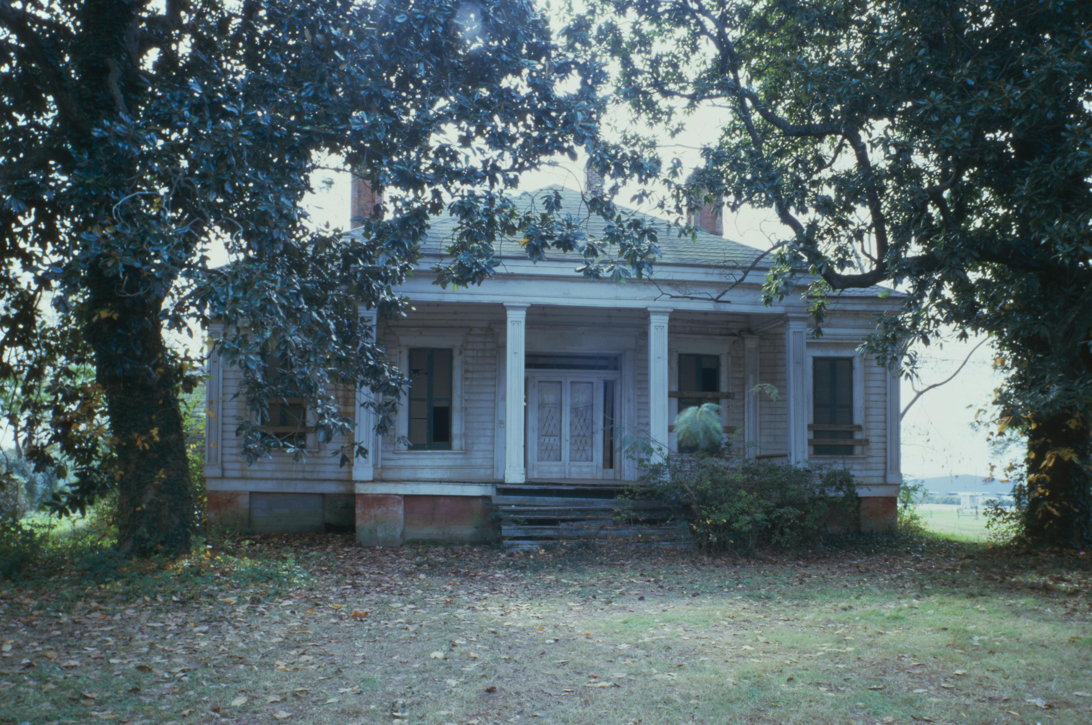 Front of the Coker House, located on the Champion Hill Battlefield southwest of Bolton in Hinds County, Mississippi, United States. The house is located within the National Historic Landmark boundaries of the battlefield.